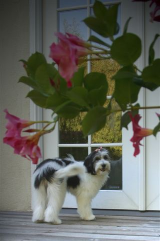 Tall Coton de Tulear